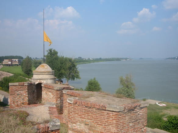 A view of the Danube from Vidin, Bulgaria. Author: Tsvetan Valentinov Karnichev.